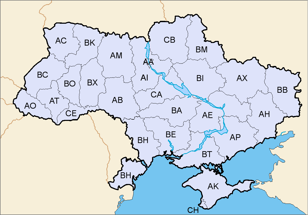 Map of license plate codes of Ukraine